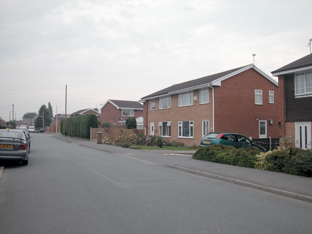 Broughton village. Post war houses